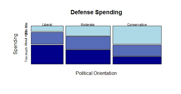 Example mosaic plot of opinion on defense spending by political party (fabricated data) to show example of ordinal data. Data was made up to show an example of visualization ordinal data in R.